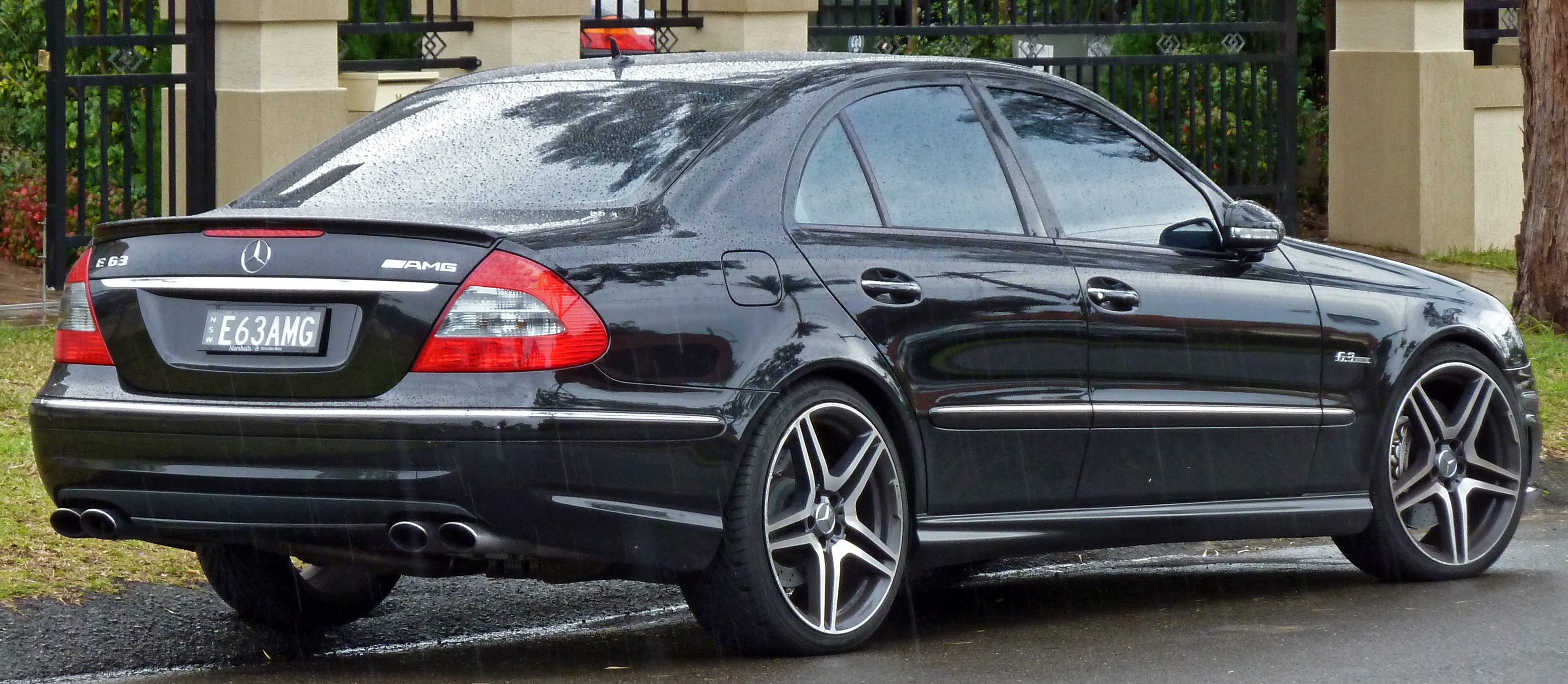 2007 Mercedes-Benz E 63 AMG (W211) sedan. Photographed in Sylvania, New South Wales, Australia.